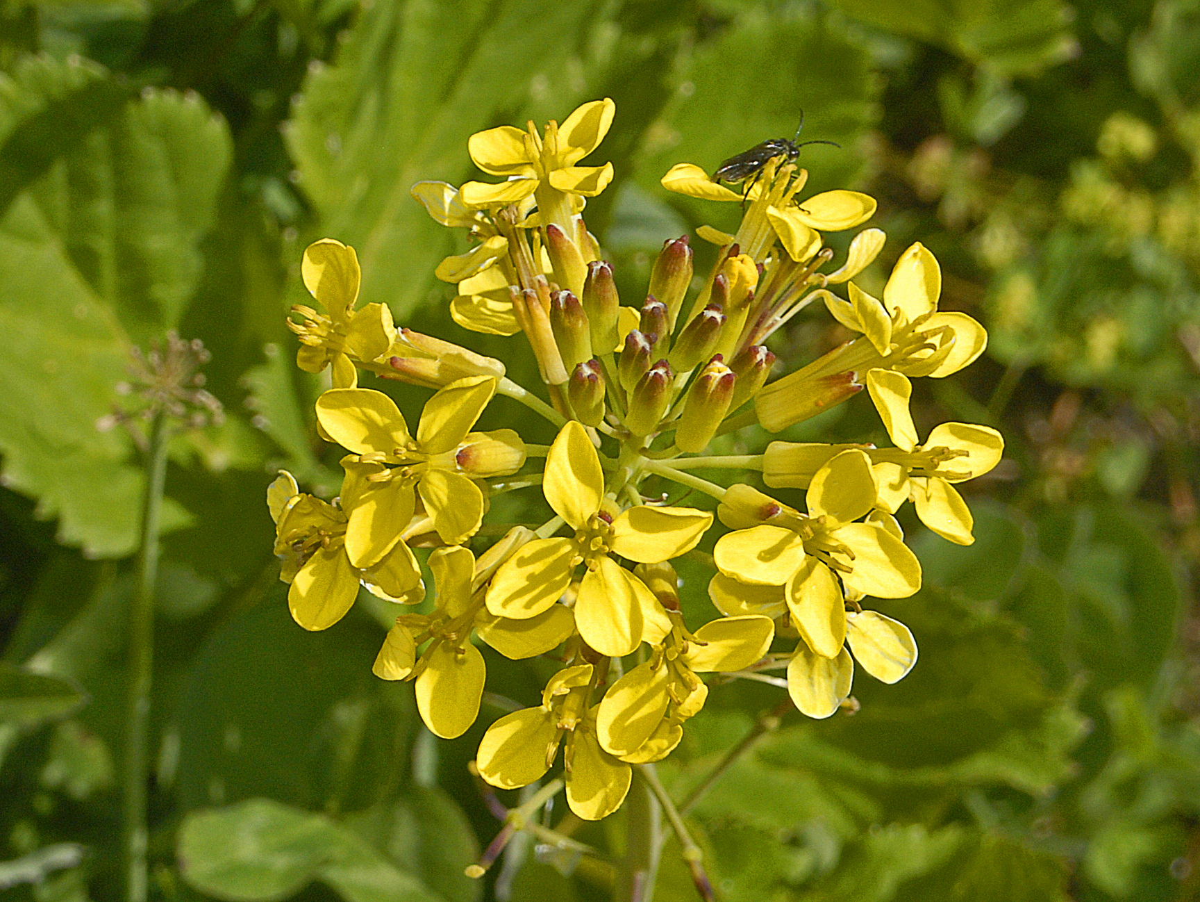 Flowers of Coincya richeri at the Giardino Botanico Alpino Chanousia